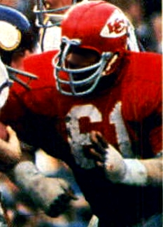 Kansas City Chiefs defensive tackle Curley Culp tackling Minnesota Vikings running back Dave Osborn (middle) in Super Bowl IV.